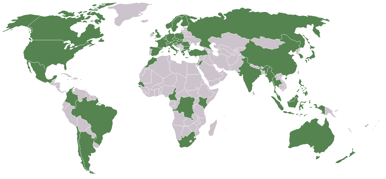 Greenpeace's National Offices